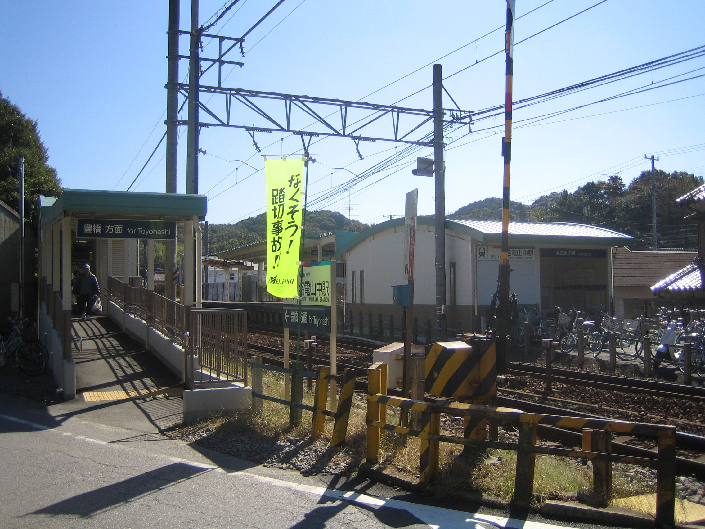 Meiden Yamanaka Sta. (名電山中駅), in Okazaki, Aichi, Japan